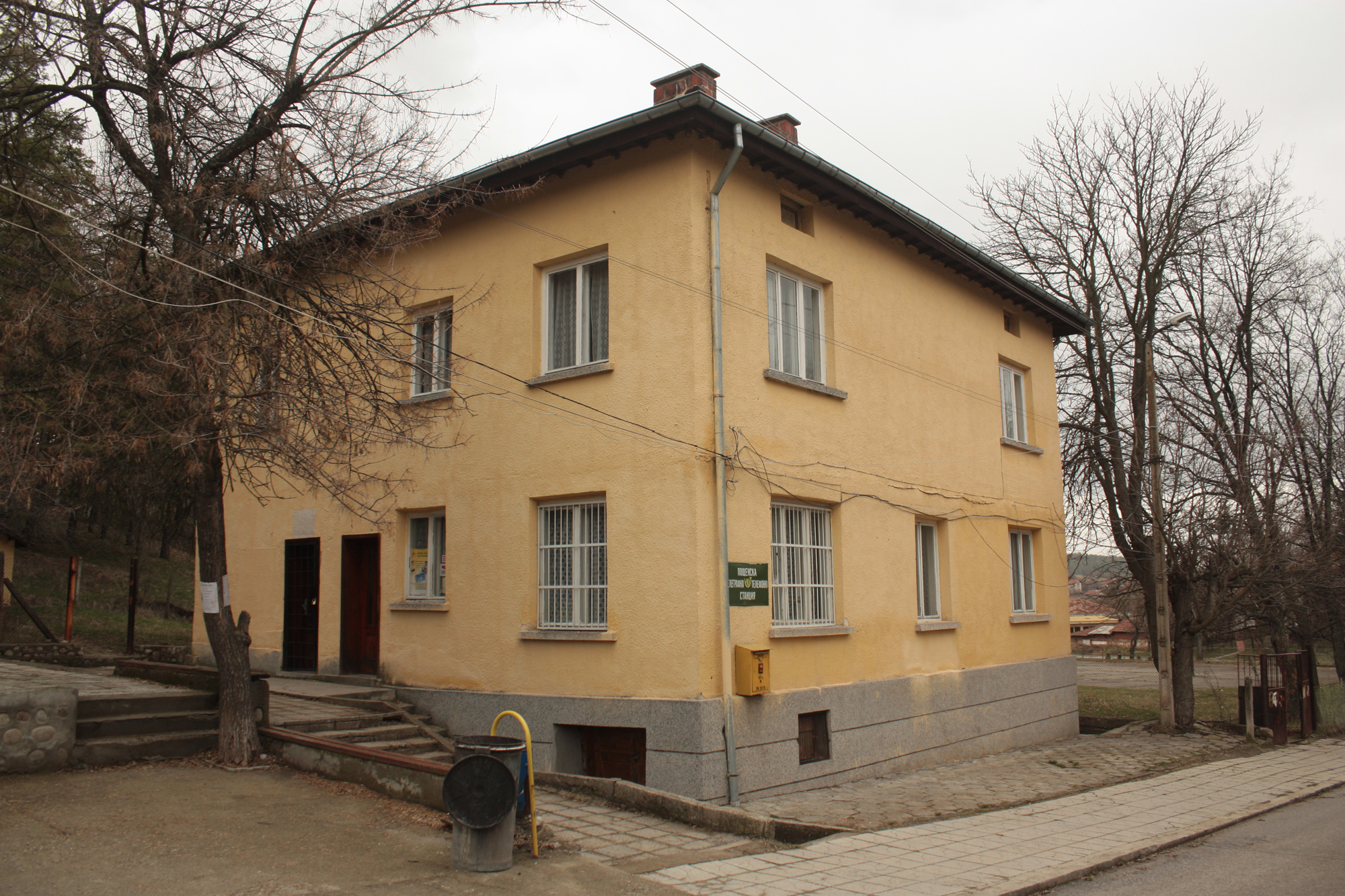 Municipality and Post Office in Alino, Bulgaria